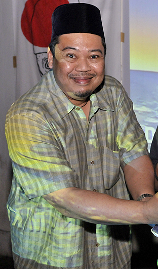 Malaysian film director, Mamat Khalid at the Maskara Shorties 2008.